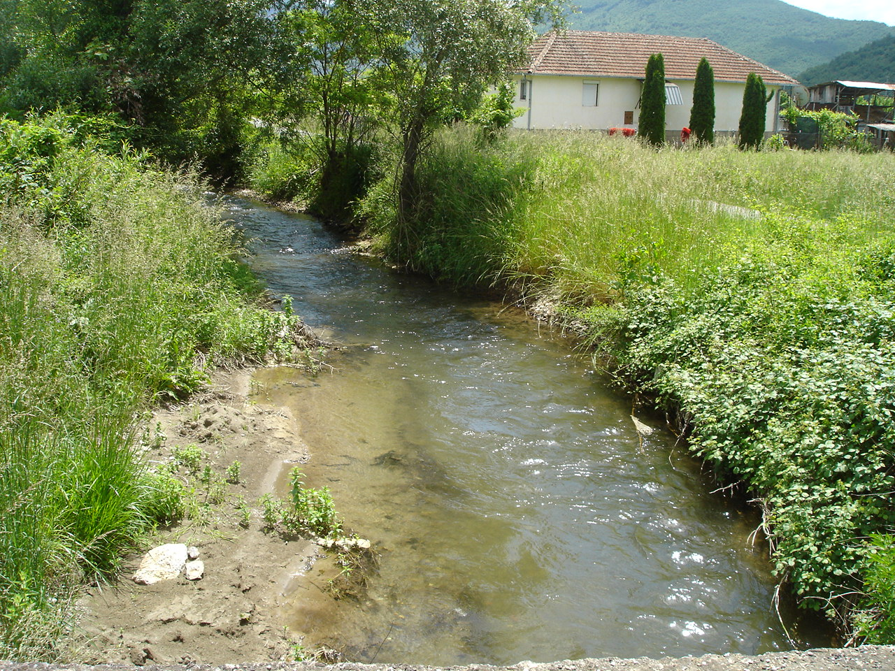 Golema Reka near the village of Belcista, Ohrid region, Macedonia